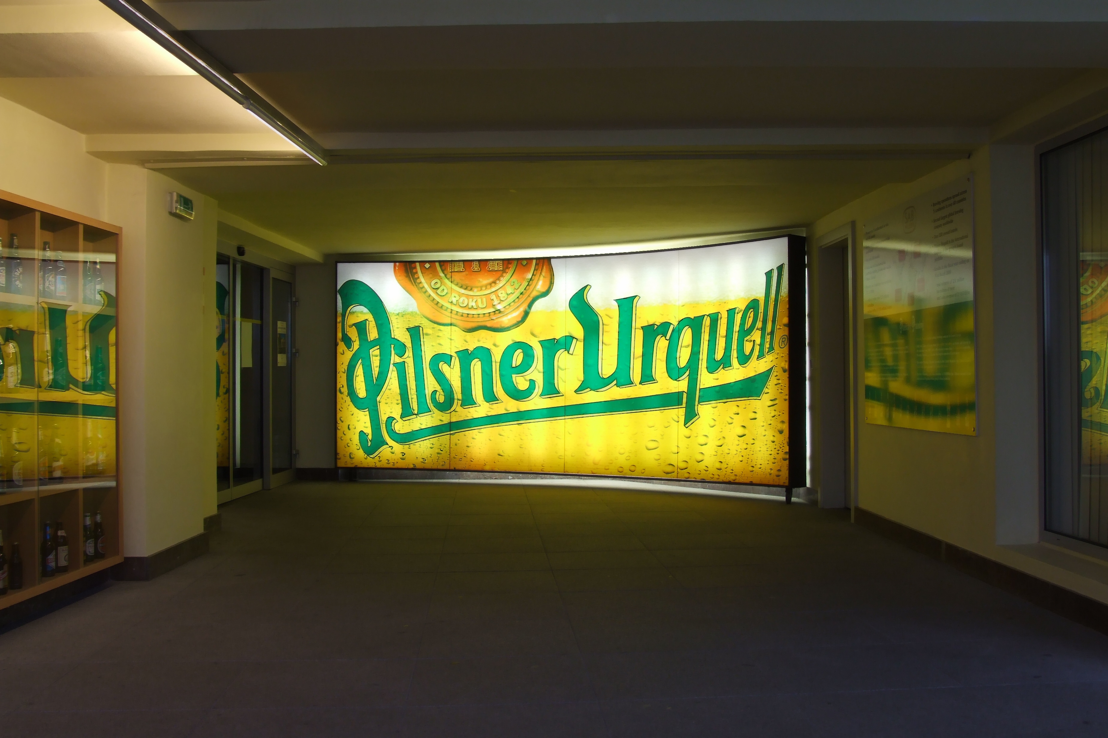 Entrance to Plzeňský Prazdroj Brewery shop, Pilsen